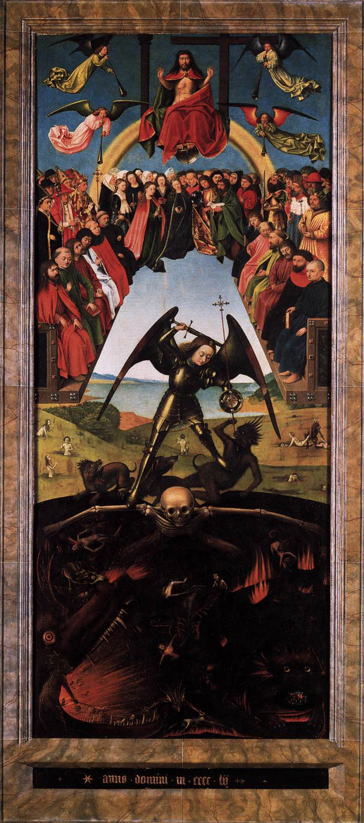 The Last Judgment